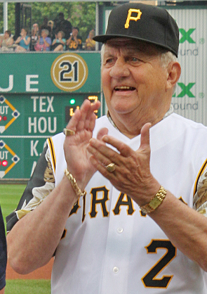 Bill Mazeroski tips his cap to the crowd during the 1960 World Series anniversary celebration at PNC Park in Pittsburgh, Pennsylvania. Vern Law and Bob Oldis are on either side of him.